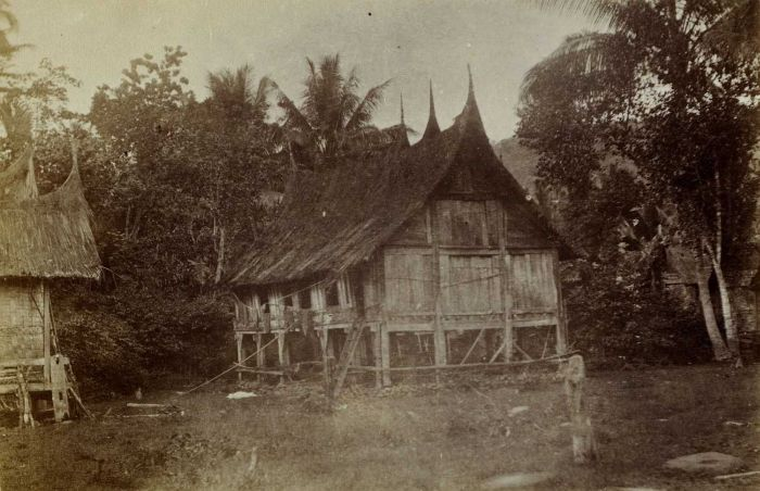 Minangkabau house